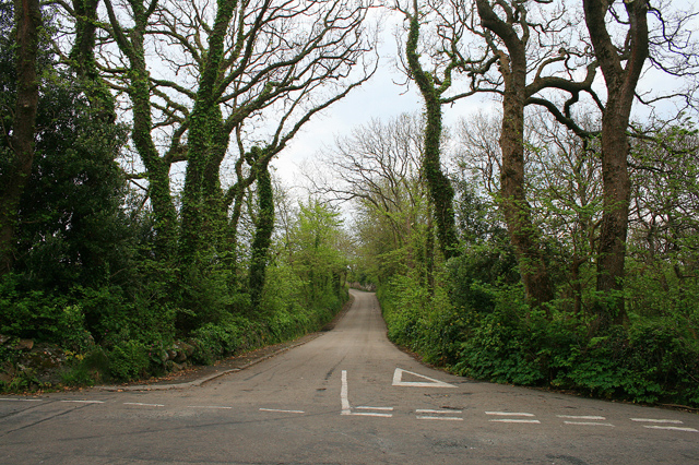 The Start (and End) of The A3110 I think that this must (at about two and a quarter miles) be the shortest circular A road in the UK.